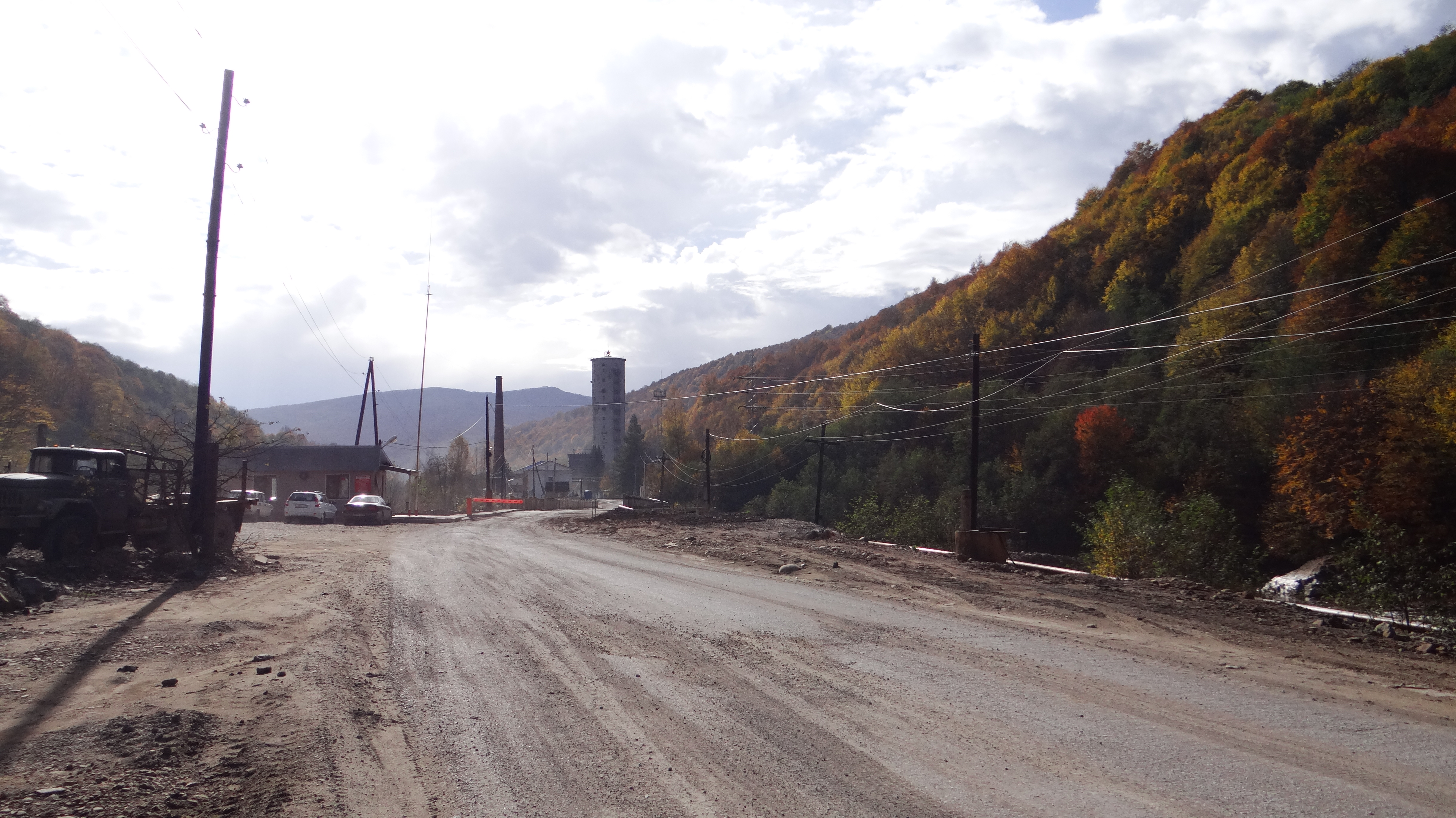 Urupsky District, Karachay-Cherkessia, Russia